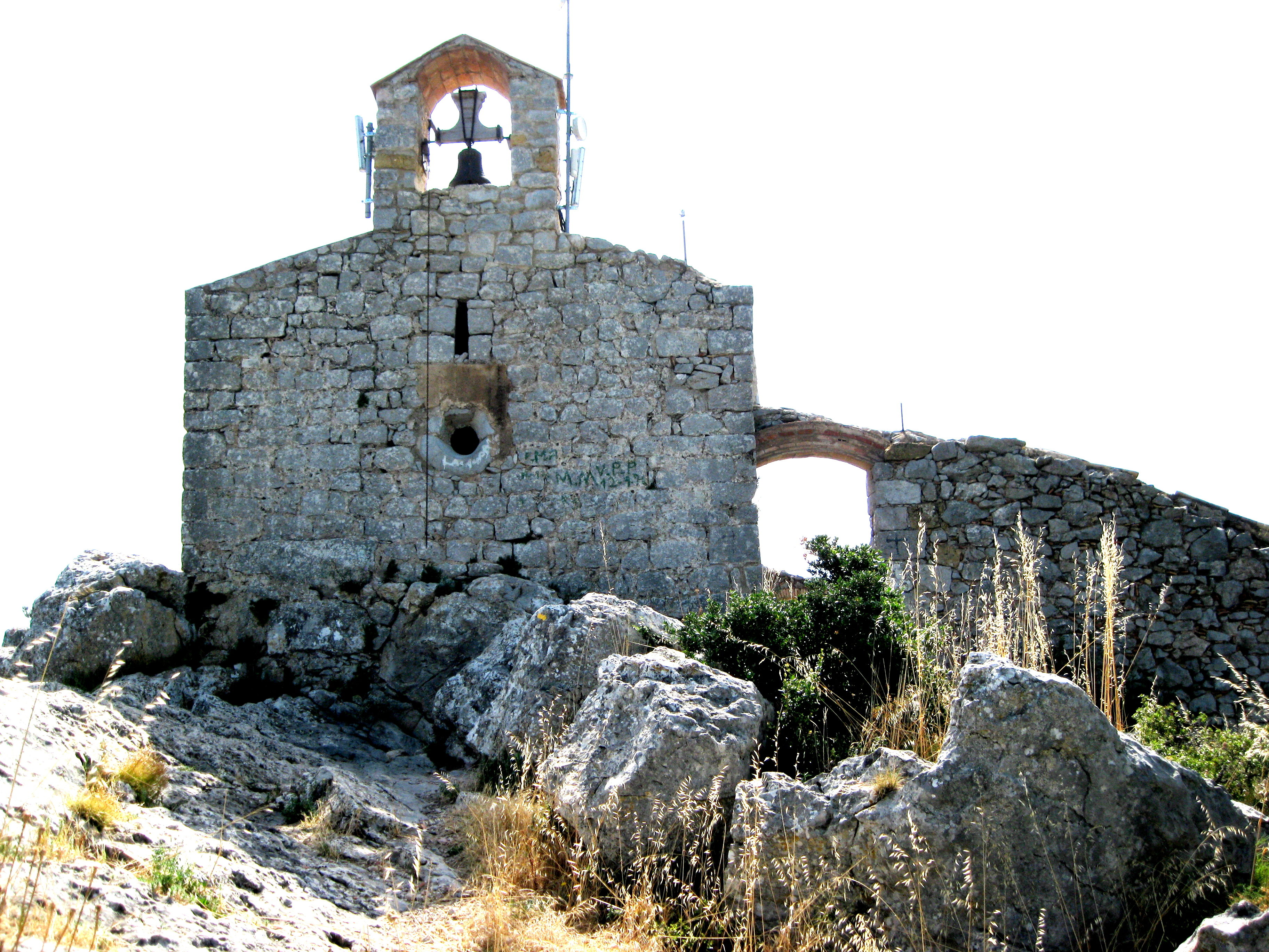 Hermitage of Santa Magdalena, in Terrades, Alt Empordà, Girona, Catalunya.